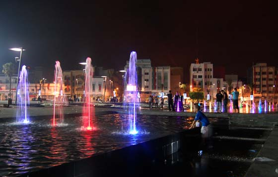 Al Hoceima city square at night.